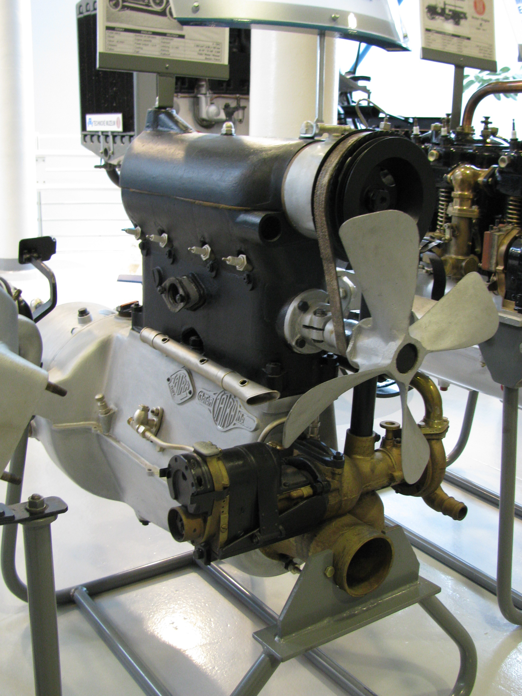 NW T engine. Used also in some other applications. Tatra Technical museum, Kopřivnice, Czeck Republic.